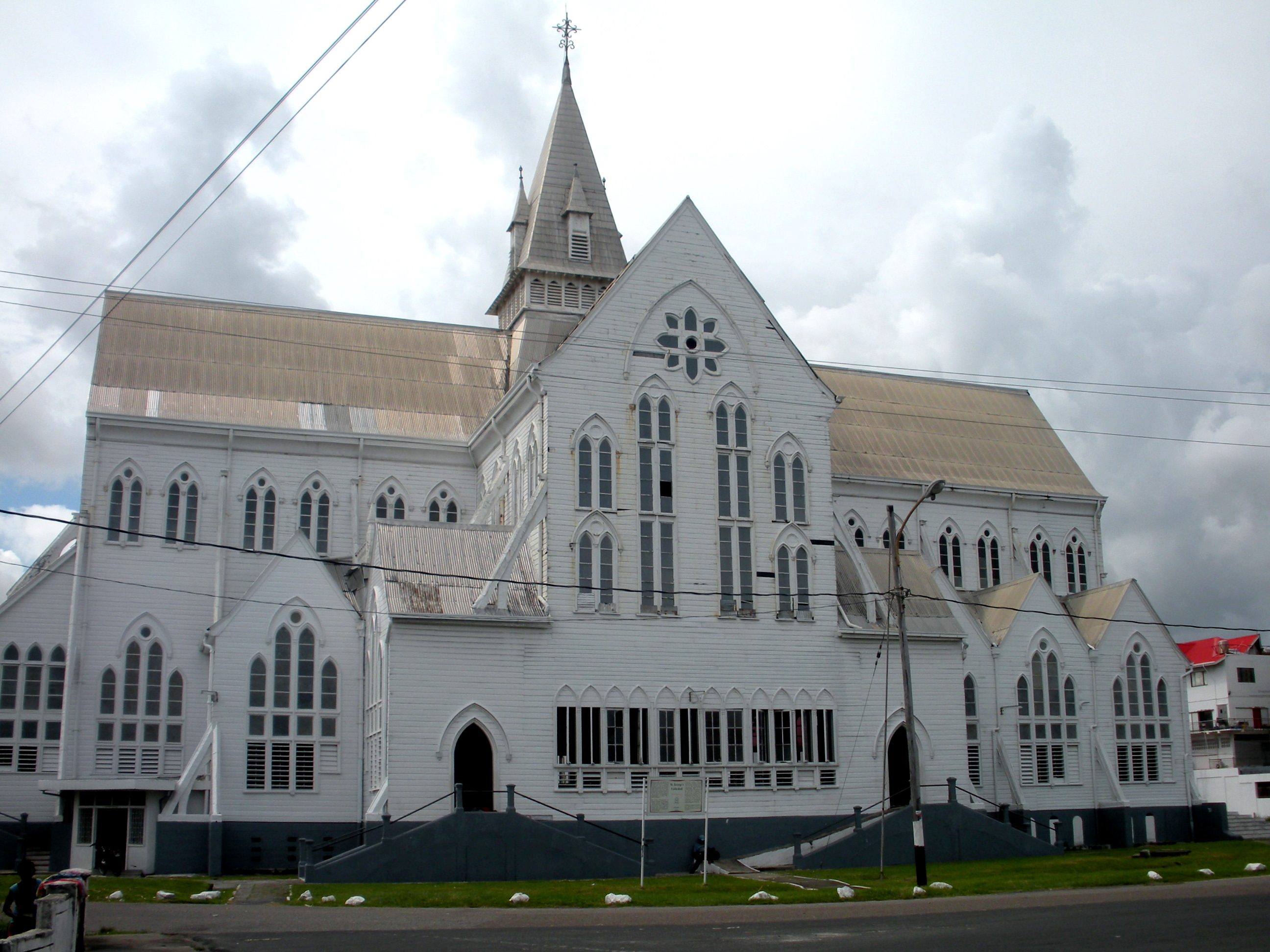 St George's Church, Georgetown, Guyana. St George's is one of the largest all-wooden buildings in the world., Georgetown (Guyana).